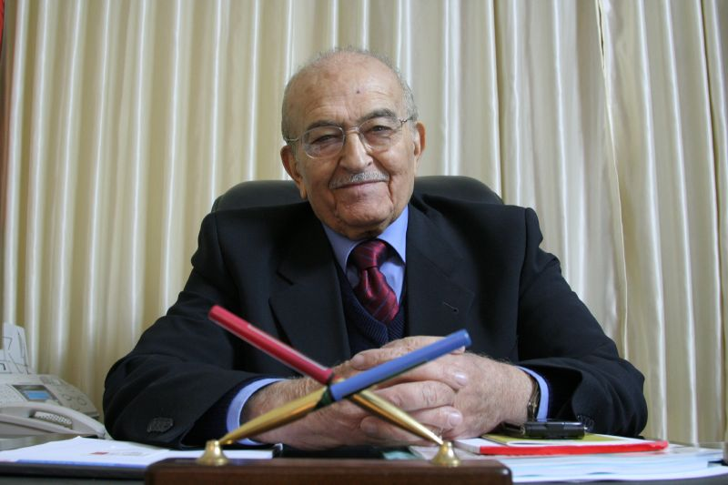 The Palestinian interior minister and a veteran of the Palestinian struggle. Love the pens. Ramallah, January 2008